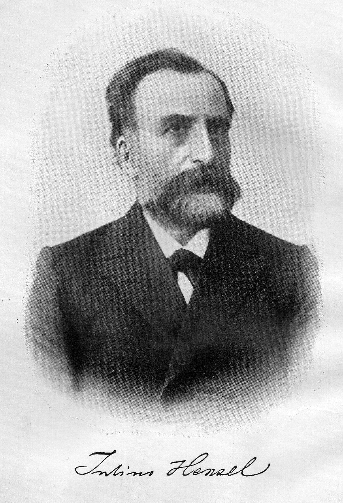 Portrait Julius Hensel (1844-1903) physician, pharmacist,physiologial chemist